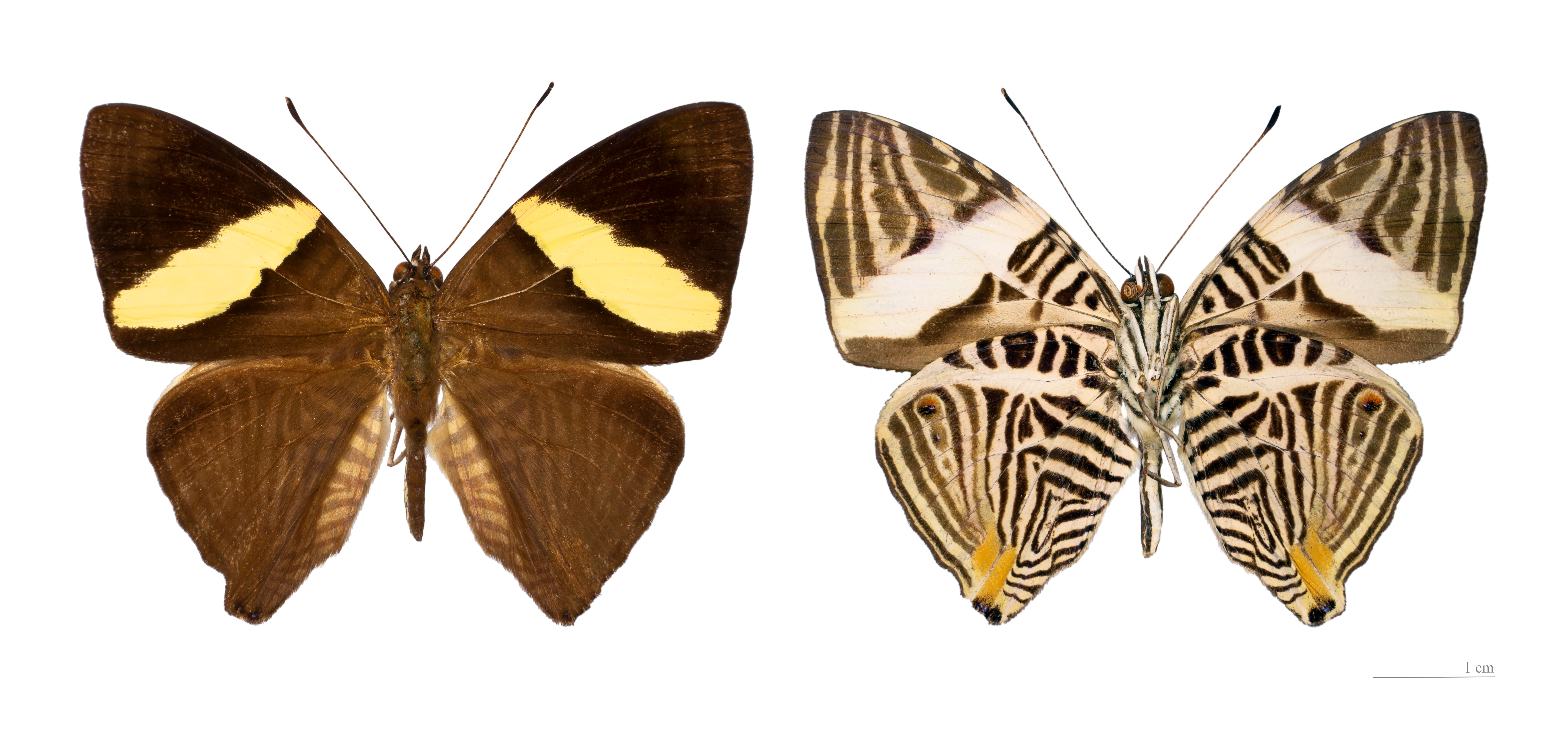 ♂ - Two views of same specimen Locality : Lac Rorota, Montjoly, French Guiana.